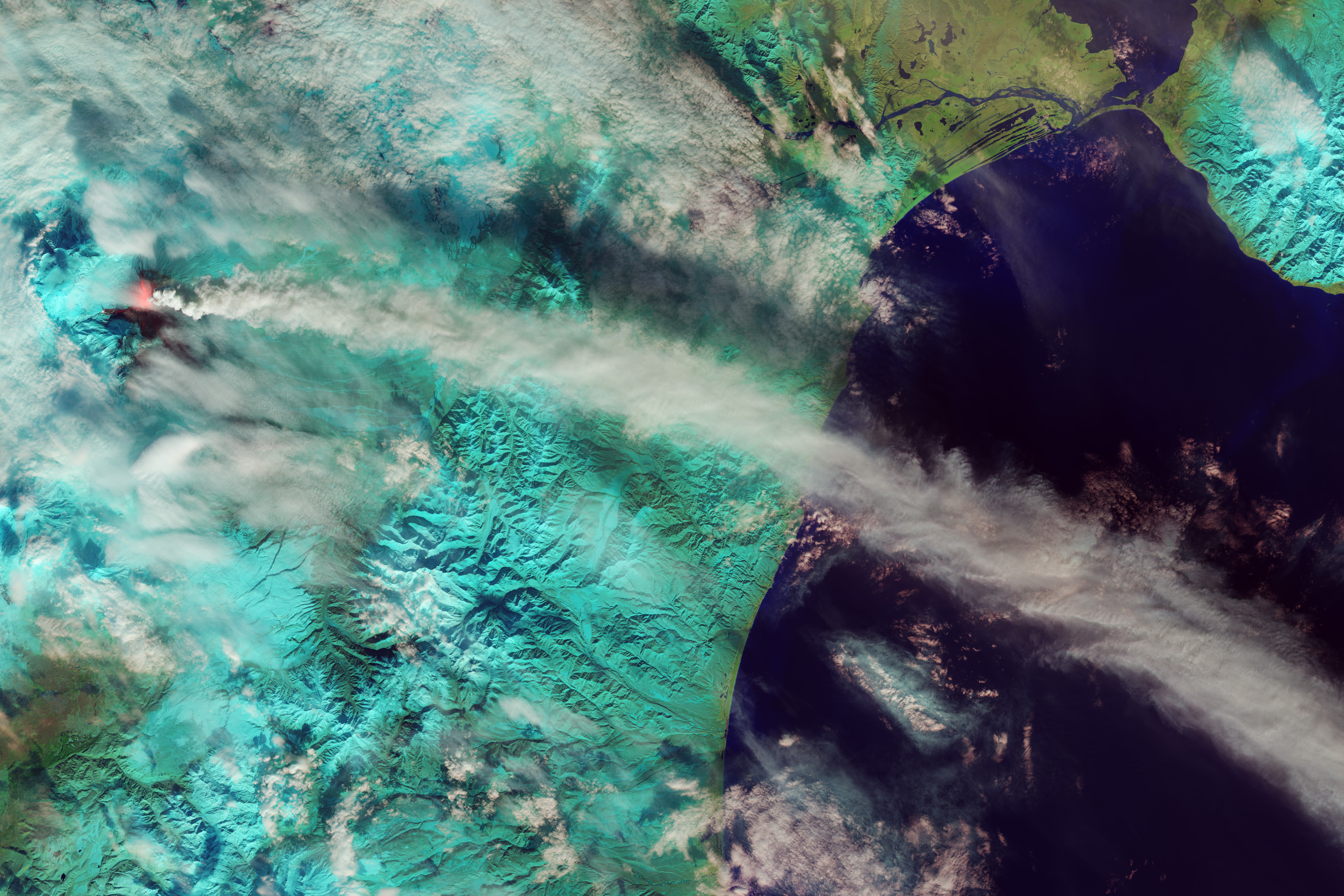 Located on Russia’s Kamchatka Peninsula, Klyuchevskaya (also spelled Kliuchevskoi) is one of the world’s most active volcanoes. More than 100 flank eruptions have occurred at the stratovolcano in the past 3,000 years, according to Smithsonian’s Global Volcanism Program. Twelve confirmed eruptions have occurred since 2000. Klyuchevskaya has been erupting since August 15, 2013, though the intensity of activity surged in October. The Kamchatka Volcanic Eruption Response Team (KVERT) reported a thick plume of ash and steam streaming from the summit on October 11. Subsequent days brought explosive eruptions, lava fountains, and volcanic tremors. At times, the ash plume rose from the summit (elevation 5 kilometers, or 16,000 feet) up to 7.5 to 10 kilometers (24,000 to 32,000 feet). When the Operational Land Imager (OLI) on Landsat 8 flew over in the afternoon on October 20, multiple lava flows streamed down Klyuchevskaya northern and western flanks. The top, false-color image above shows heat from the flows in shortwave-infrared, near-infrared, and green light. Ash, water clouds, and steam appear gray, while snow and ice are bright blue-green. Bare rock and fresh volcanic deposits are nearly black. In the wider natural-color (red, green, blue) image, snow and clouds are white, the ash plume is light gray, and forests (with trees tall enough to stand above the snow cover) are dark brown. Caption by Adam Voiland and Robert Simmon.